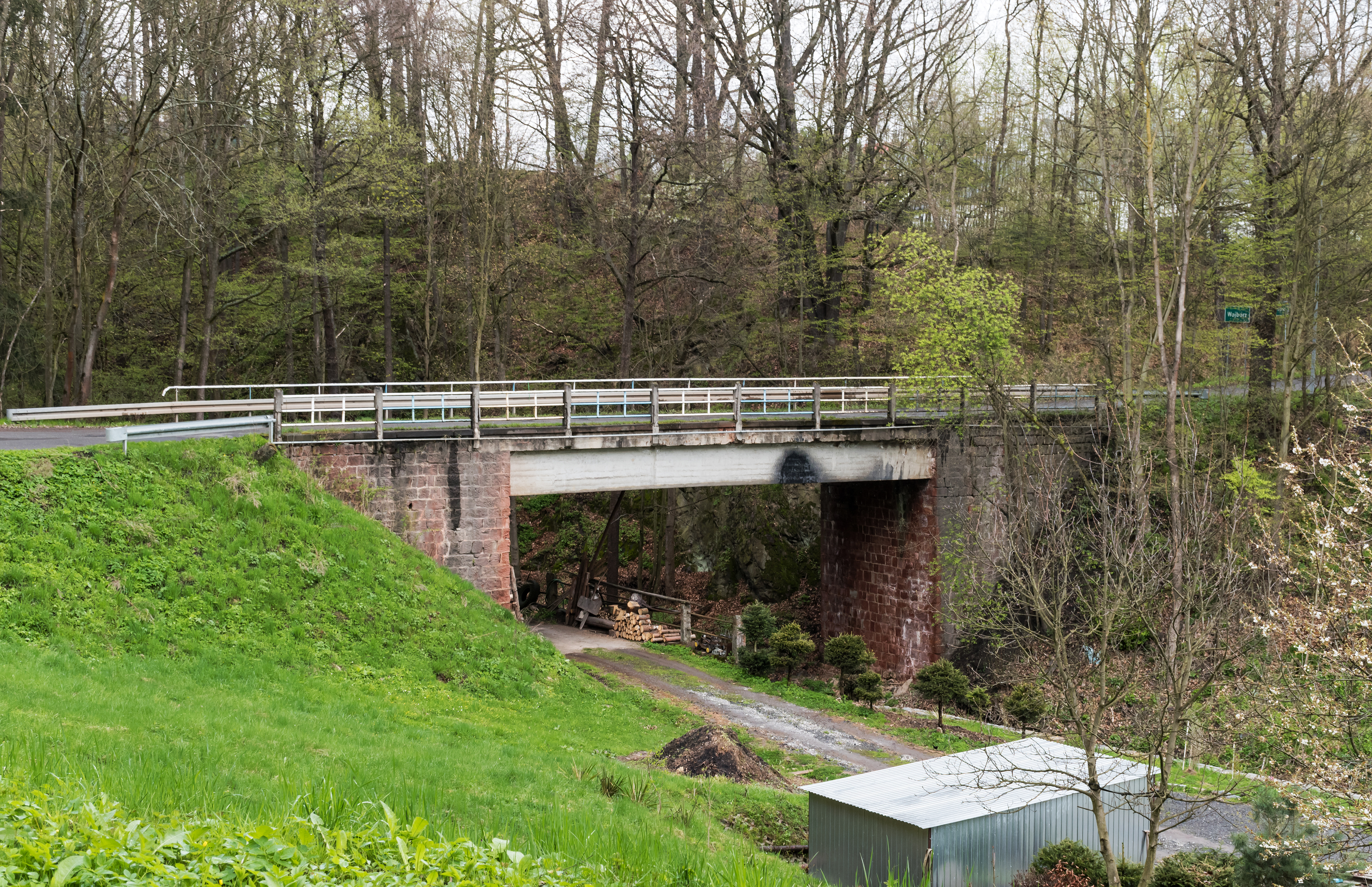 Viaduct in Młynów